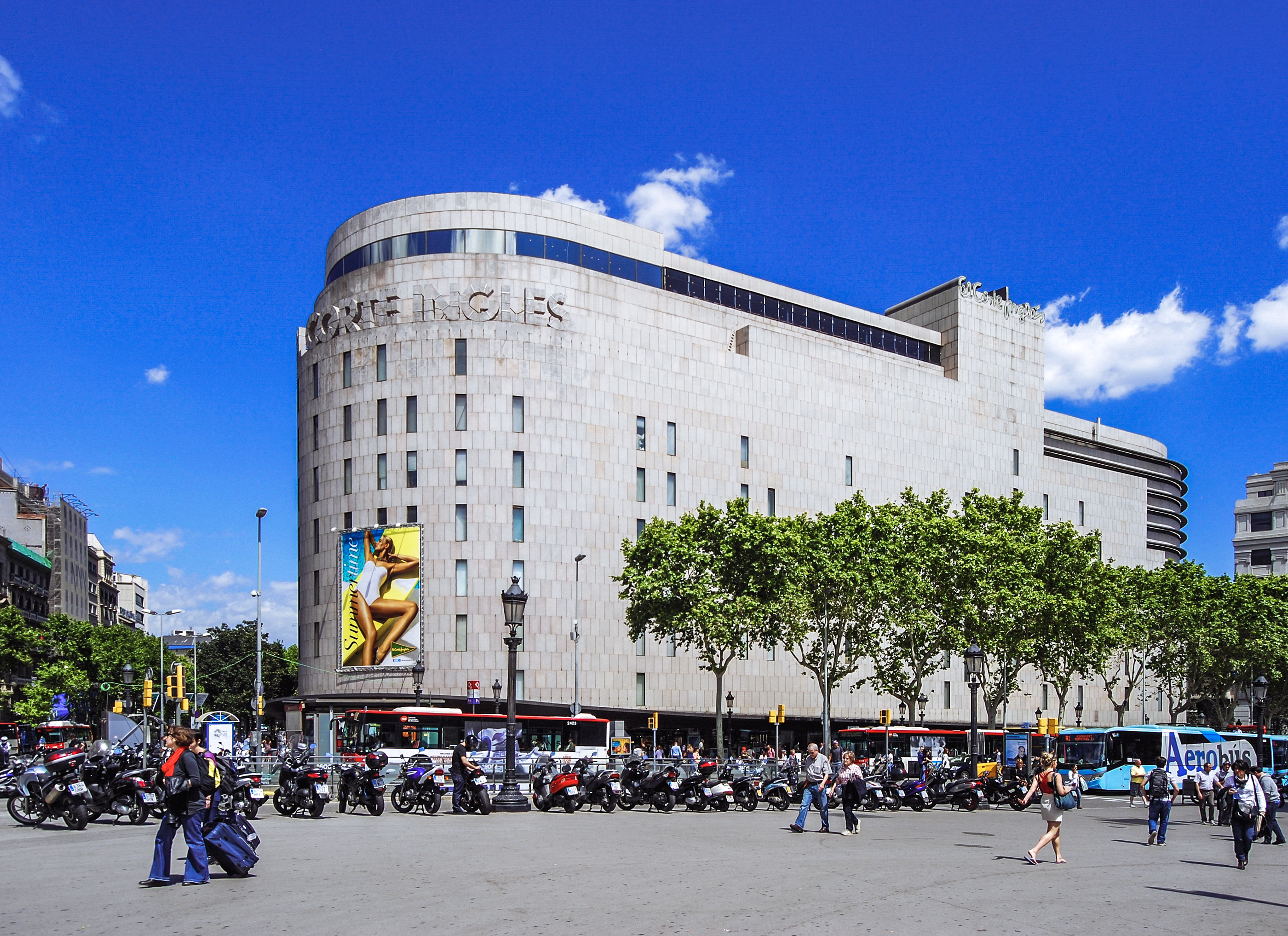 The store of El Corte Inglés group at Plaça de Catalunya, Barcelona.